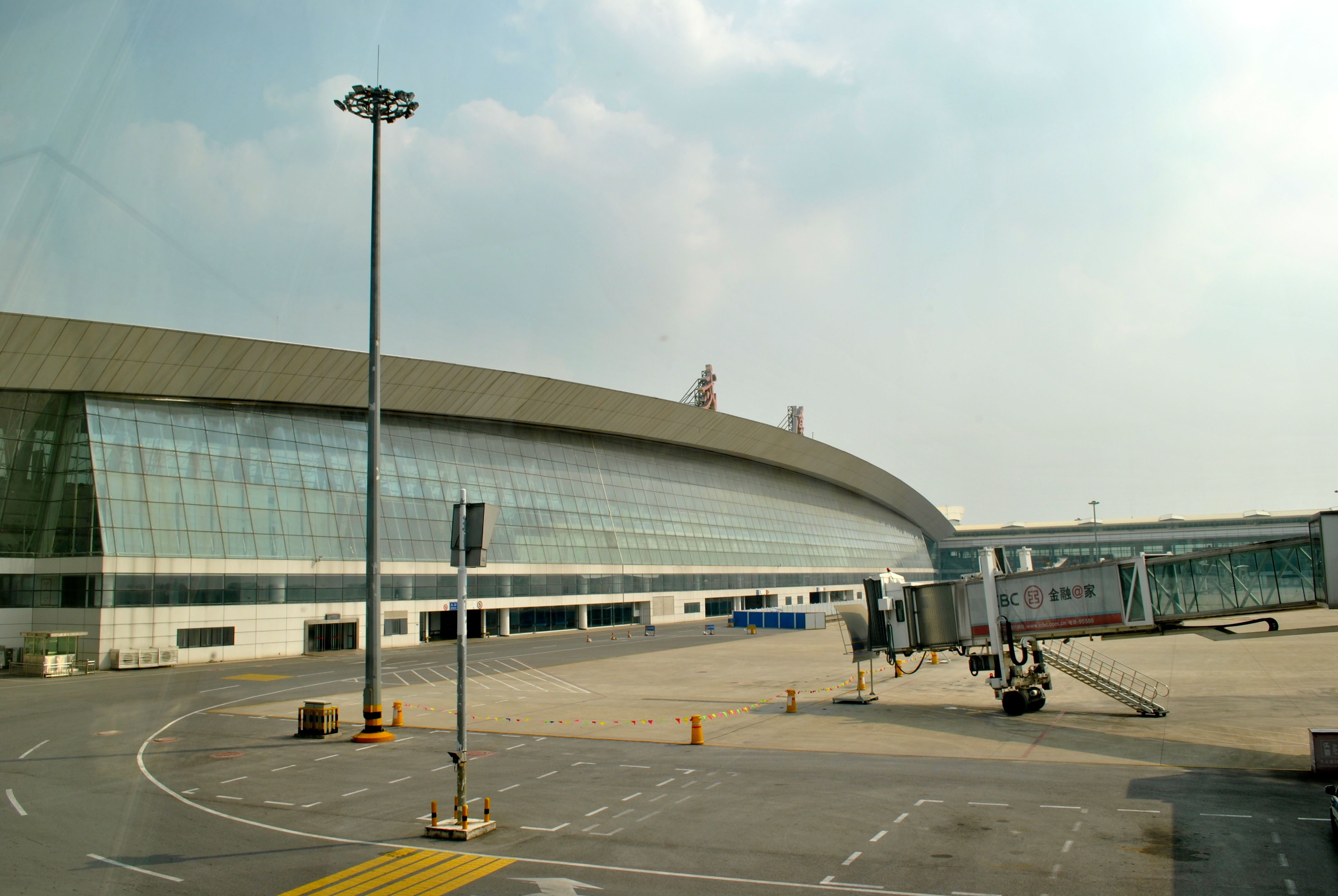 Wuhan Tianhe Airport 2